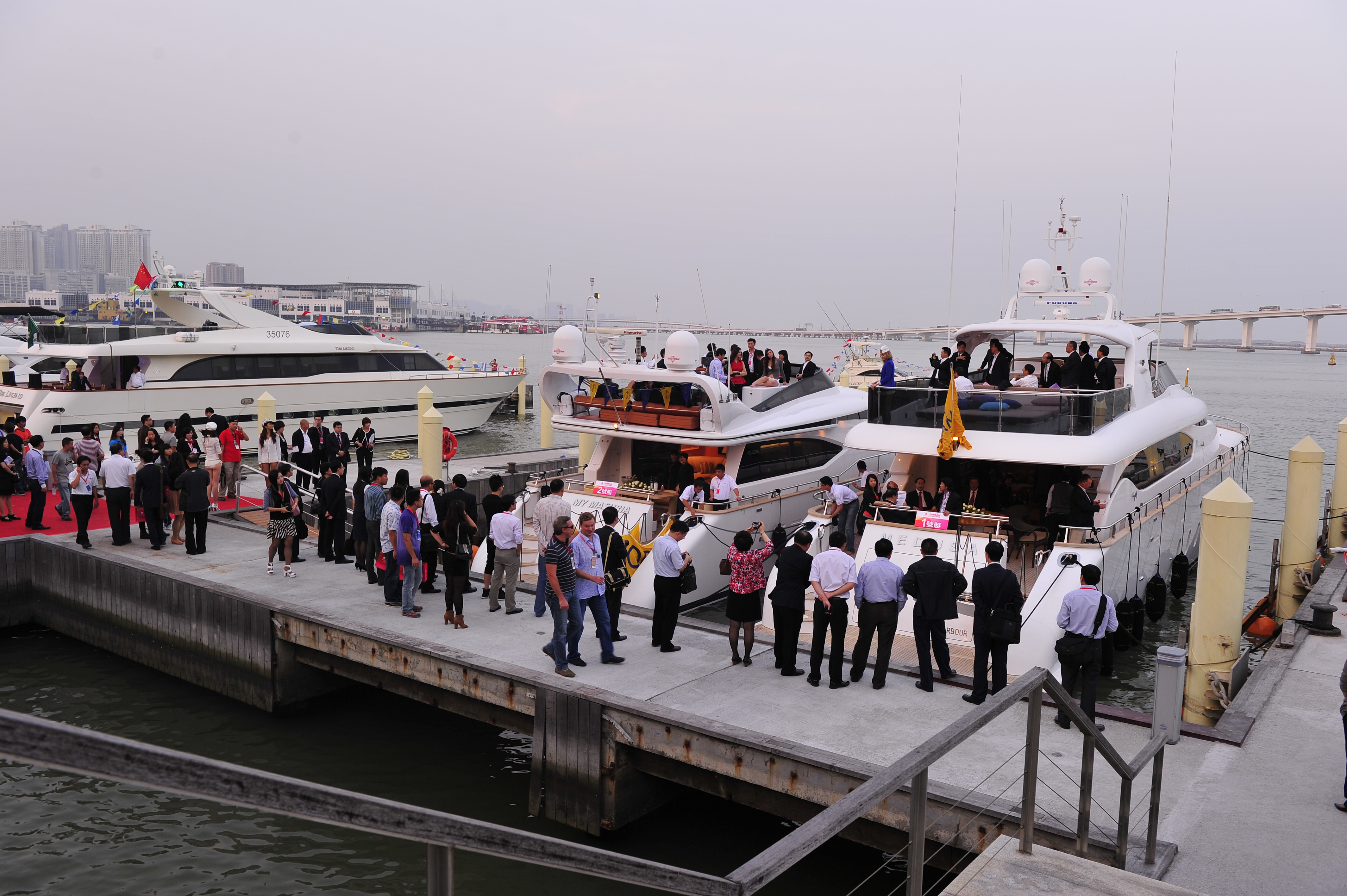 2011 Macau Yacht Fair, crops of Visitors.